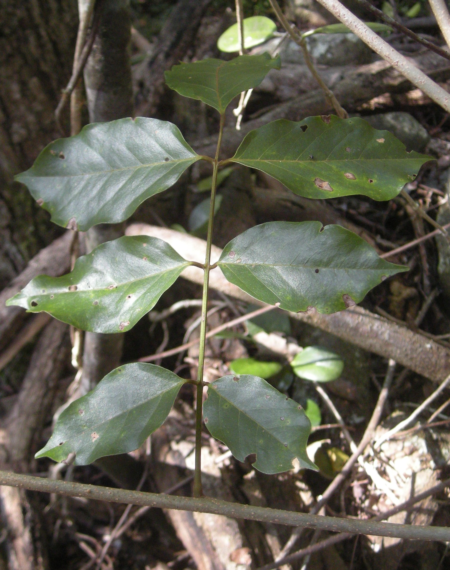 Austrosteenisia blackii foliage